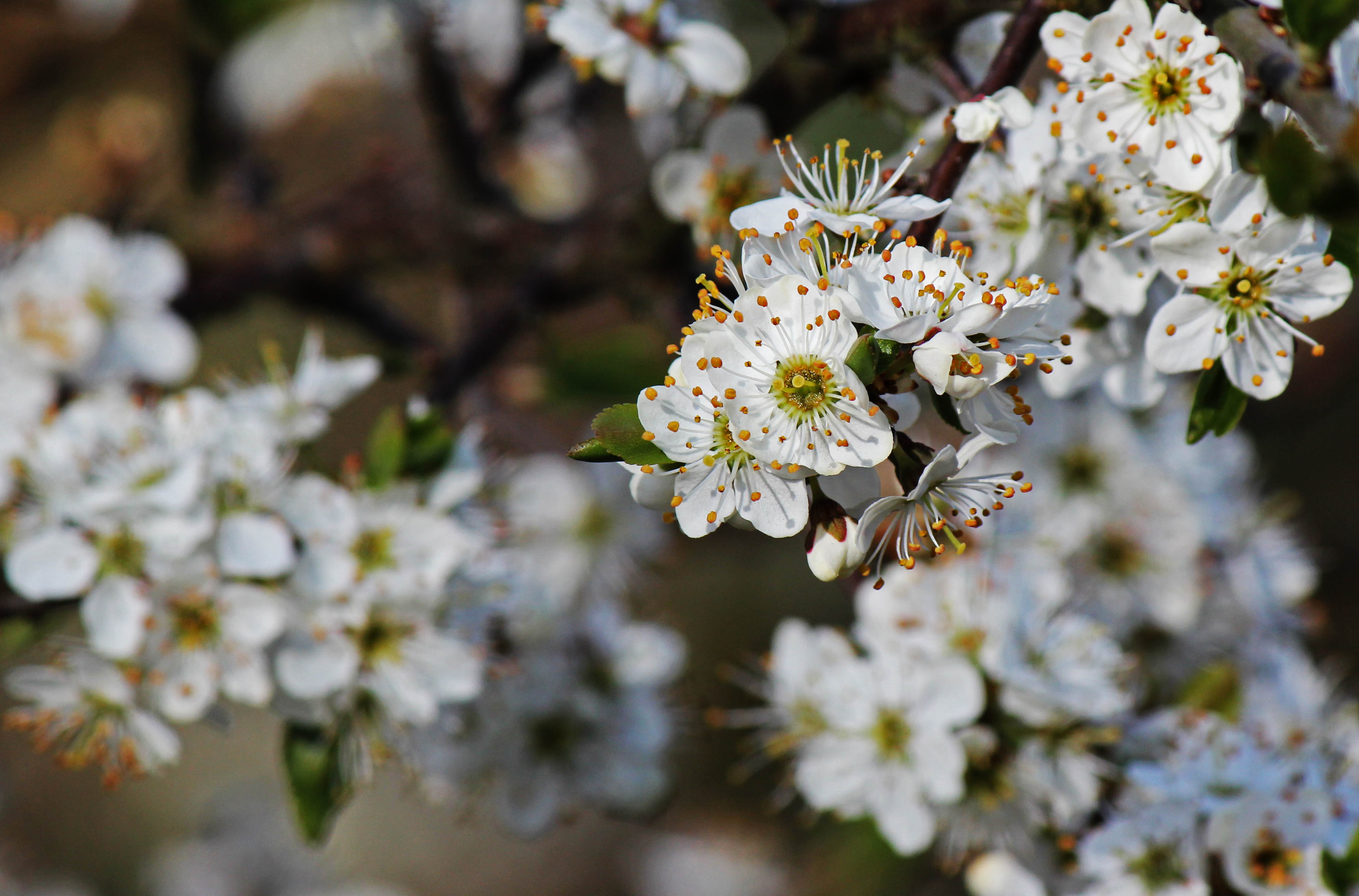 Flowers on a Prunus spinosa (also known as blackthorn and sloe) bush in Sweden.